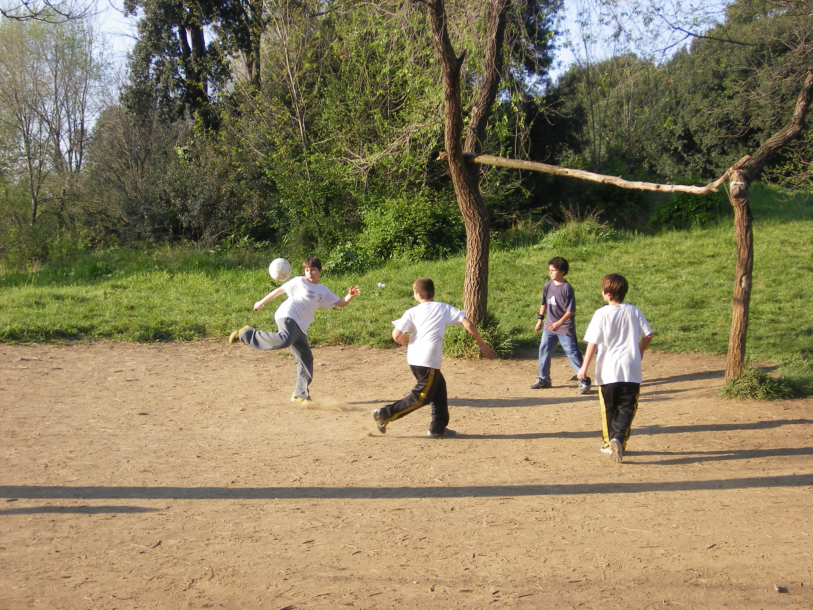 Kids playing football in Villa Doria Pamphili, Rome